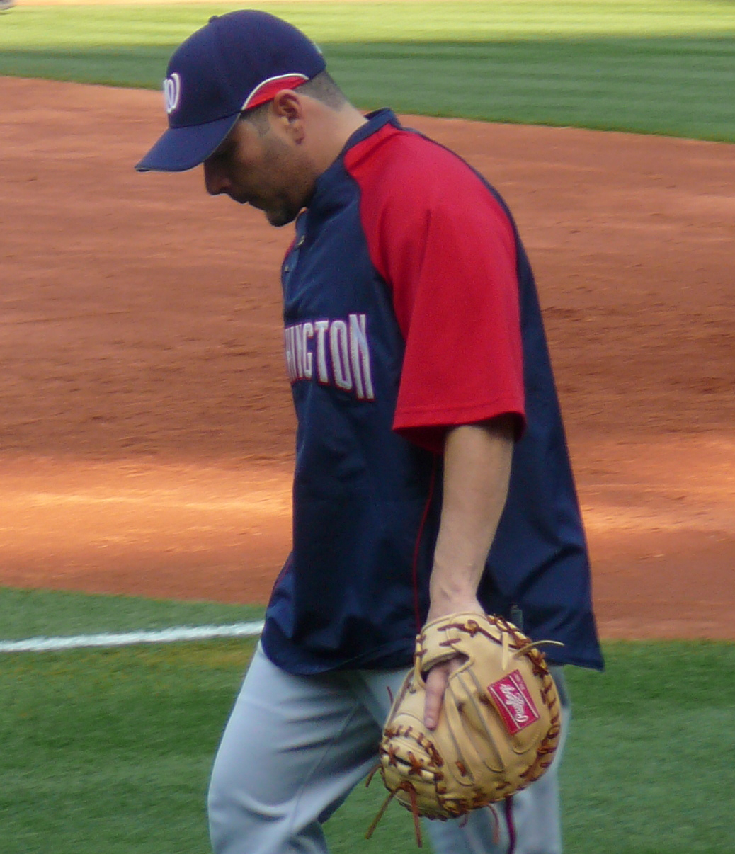 User:Chrisjnelson agreed to license this image of Paul_Lo_Duca.jpg under a free attribution license. Any use of this image must be attributed; this means that Photo by :en:User:Chrisjnelson|Chris Nelson should be in the picture caption. 07:34, 24 April 2008 . . Chrisjnelson . . 1,038×1,206 (791 KB)